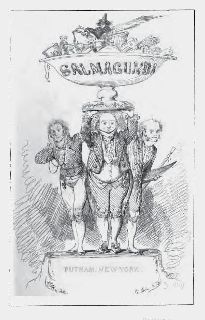 Title page for Salmagundi; Or, The Whimwhams & Opinions of Launcelot Langstaff, Esq ..., an early 19th century journal founded in New York by American author Washington Irving and others.